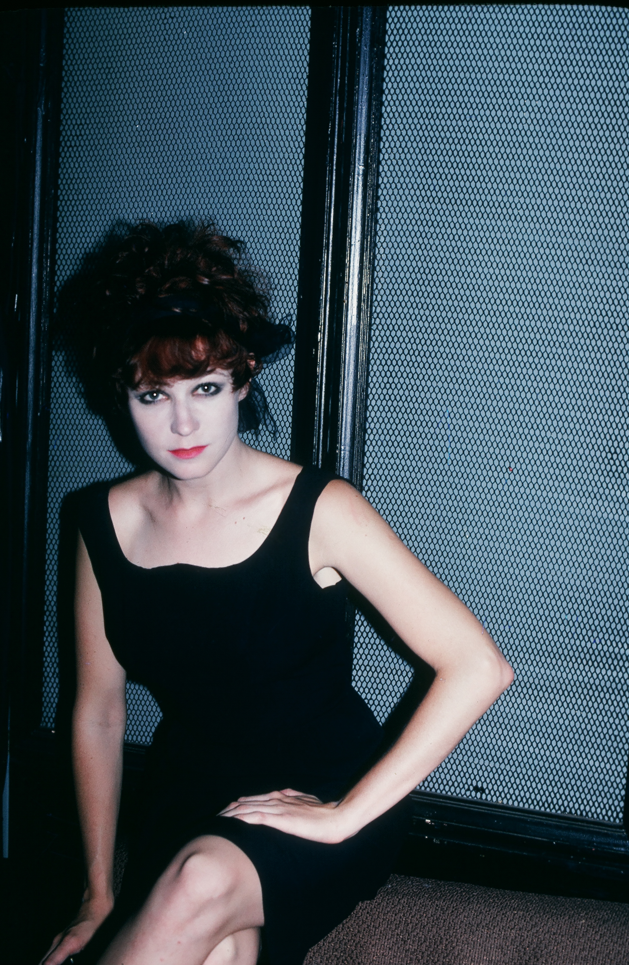 Ann Magnuson when she was the manager of Club 57 on a normal night.